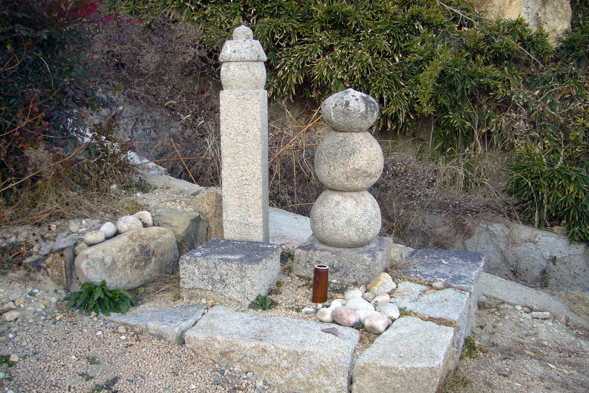 Hiraga Gennai Seishi Monument of Tomonoura in Fukuyama, Hiroshima, Japan